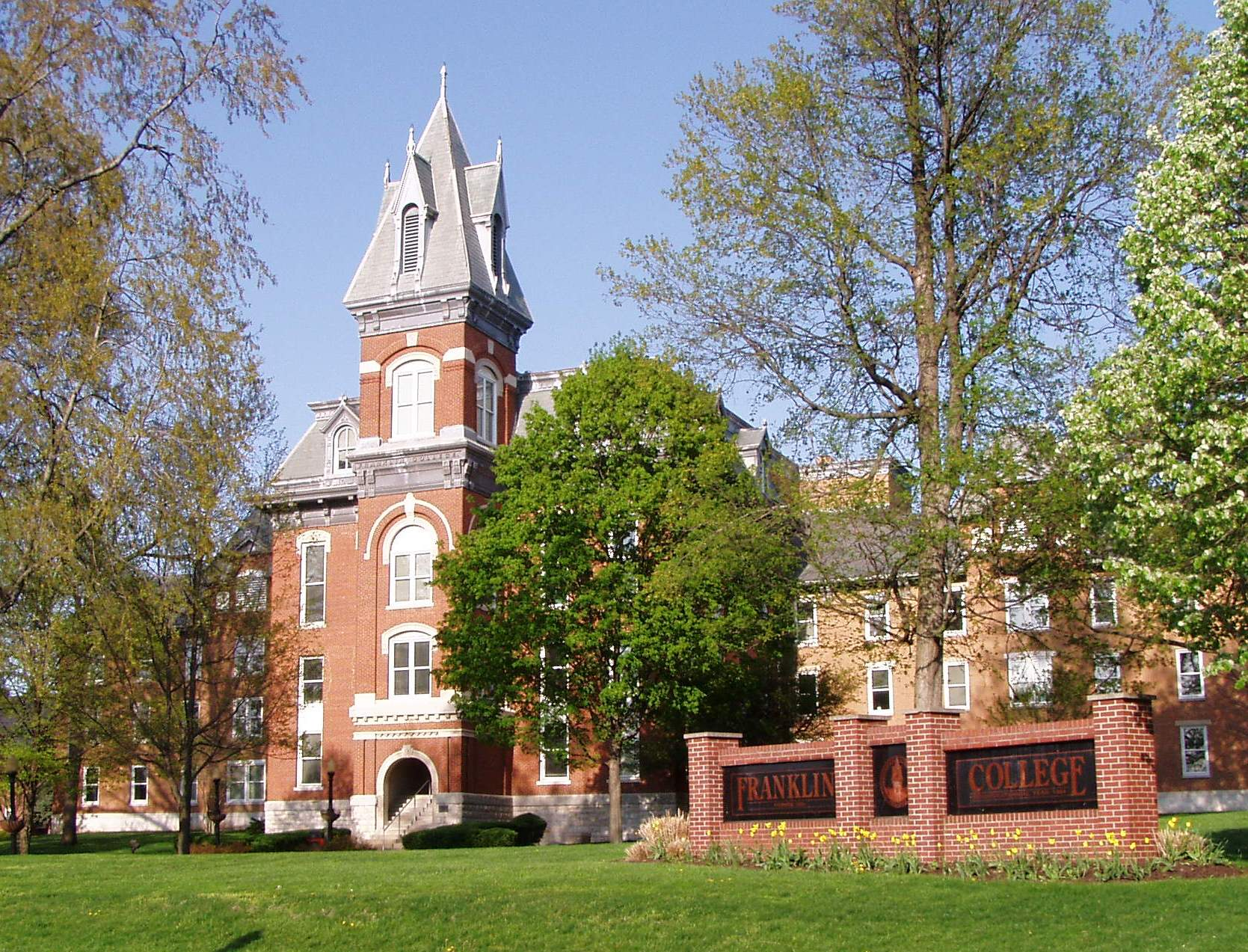 Front of Old Main on the campus of Franklin College in Franklin, Indiana, United States. Built in 1847, it is listed on the National Register of Historic Places.